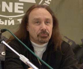 Ian Hill (Press conference of band Judas Priest at Moscow)